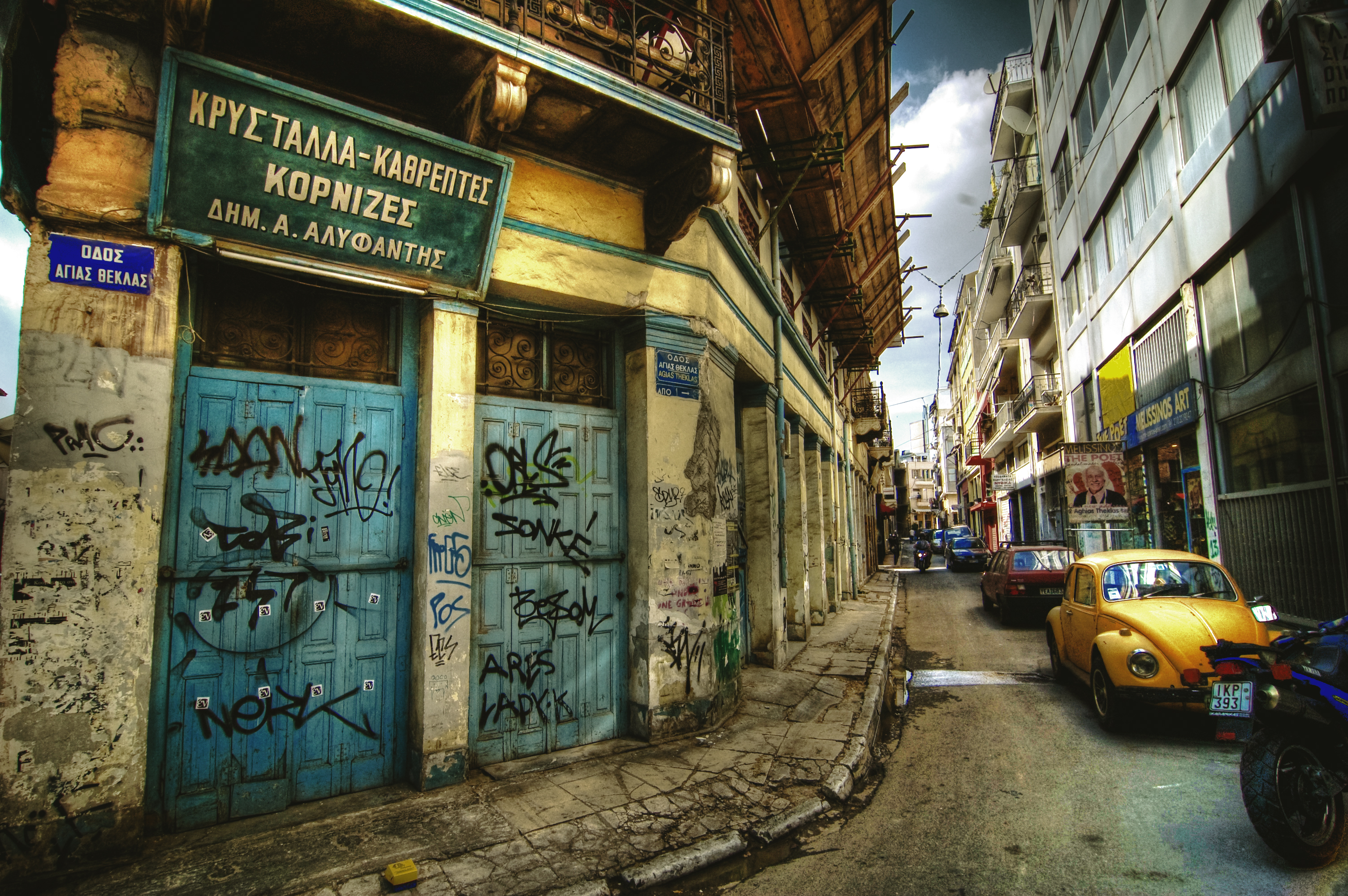 The real Athens